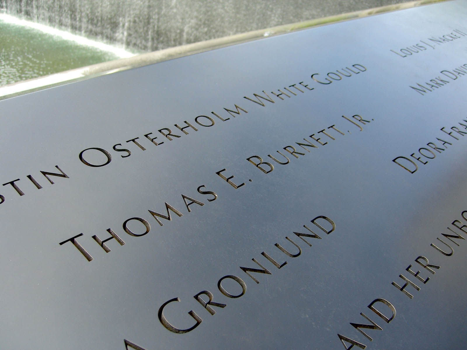 The name of Tom Burnett is seen those of other United Airlines Flight 93 passengers who lost their lives in the September 11 attacks on Panel S-68 of the National 9/11 Memorial's South Pool in Manhattan, as seen on April 28, 2012. This photo was created by Luigi Novi. If you have any questions, you can contact me by sending me an email or leaving a note at the bottom of my talk page.